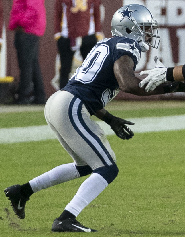 Cowboys at Redskins 10/21/18